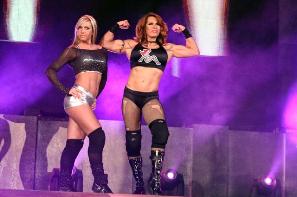 April Hunter and Lorelei Lee making their way to the ring prior to a match for TNA